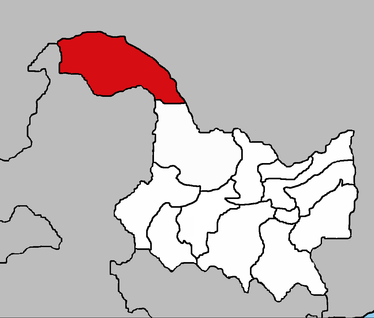 Locator map of Daxing'anling Prefecture — in Heilongjiang Province, China